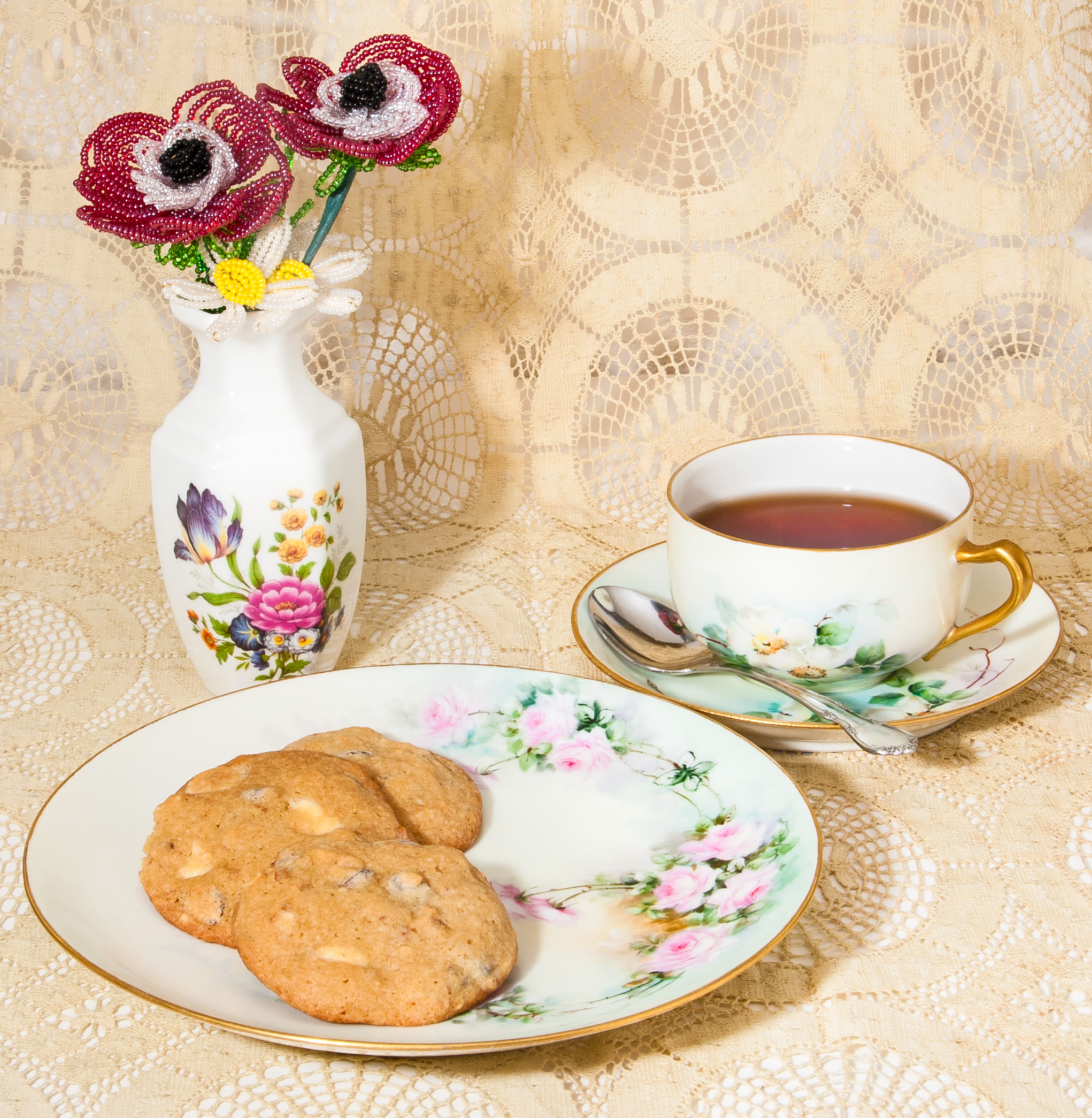 Taken for September 2013 Monthly Scavenger Hunt - "Biscuit".